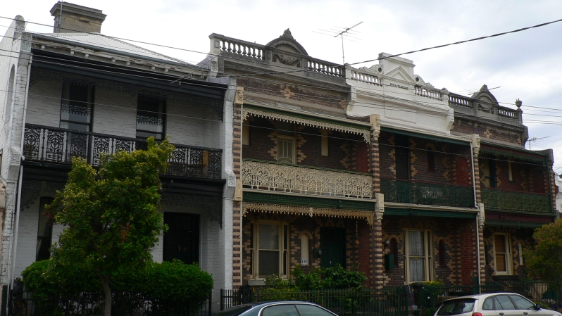 Double storey Victorian terrace homes. Abbotsford, Victoria.